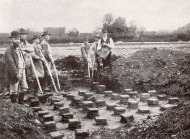 Teacher Magnus Scheller (on the left) at the excavation of the Apollo-Grannus-Temple in Faimingen